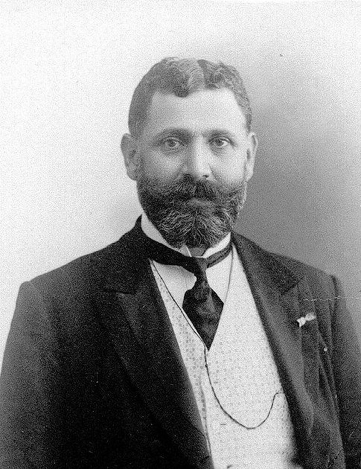 Nazaret Taghavaryan